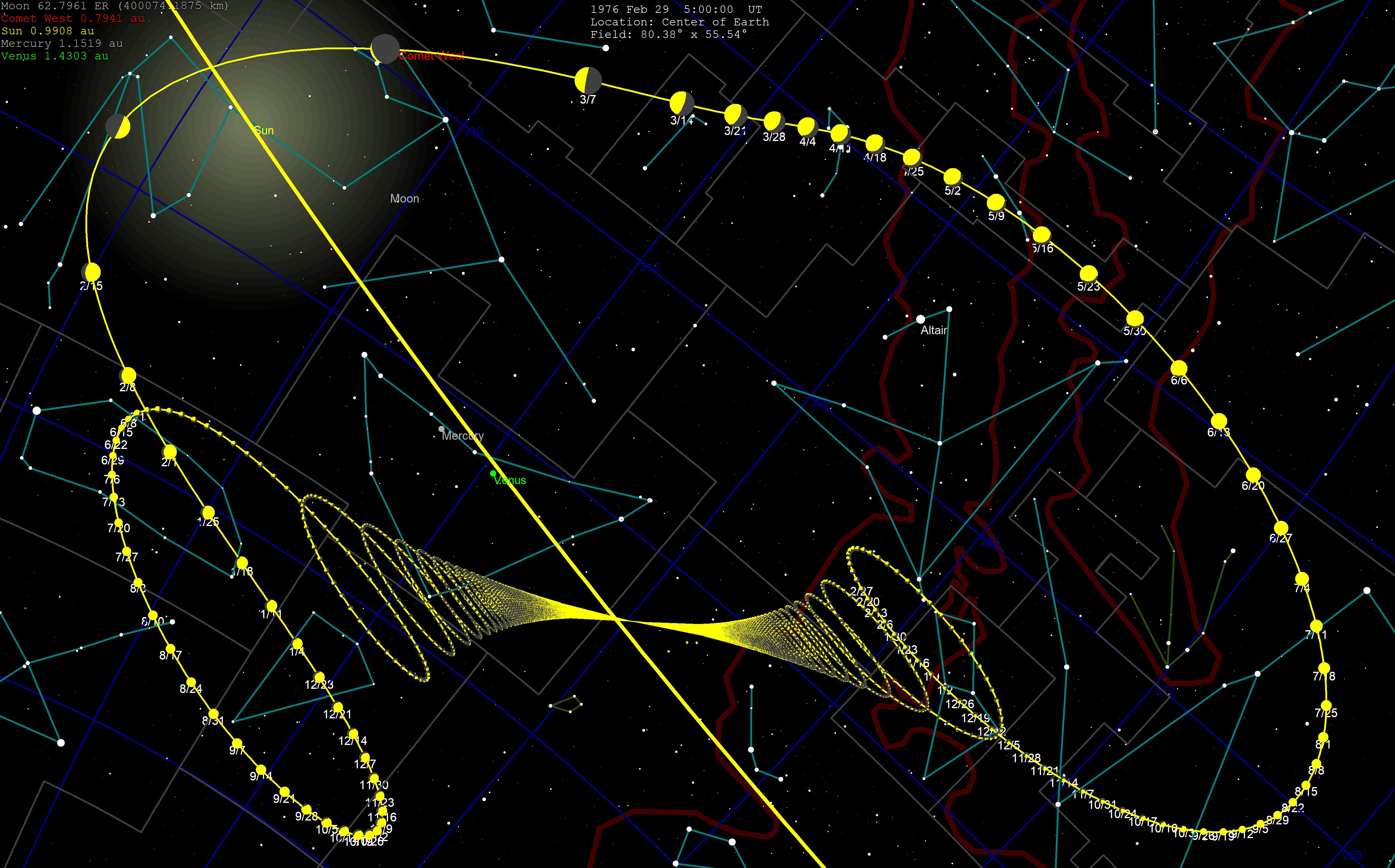 Comet West sky trajectory, 7 day motion marked and labeled for 1975/1976